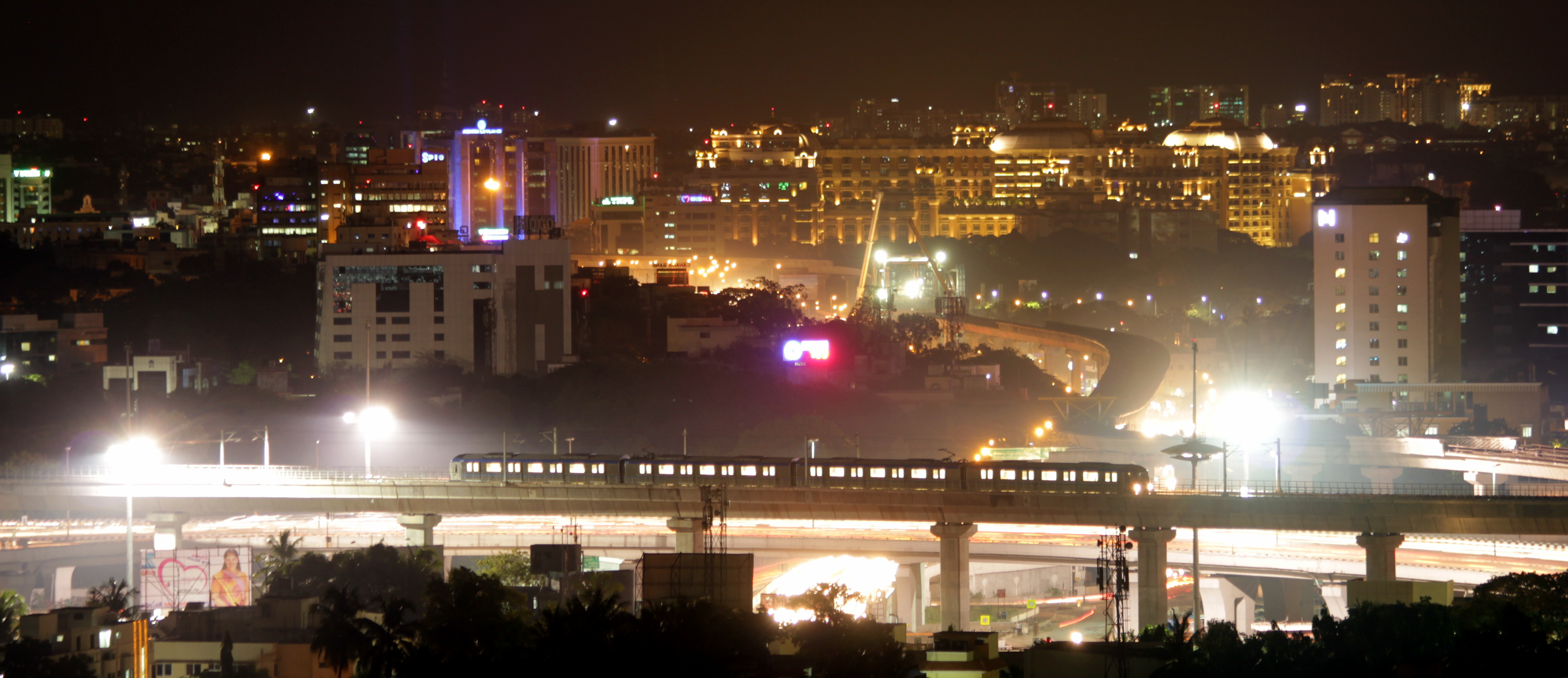 Chennai metro during trial run during night